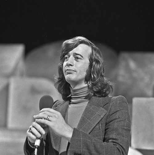 Robin Gibb (Bee Gees) in AVRO's TopPop (Dutch television show) in 1973